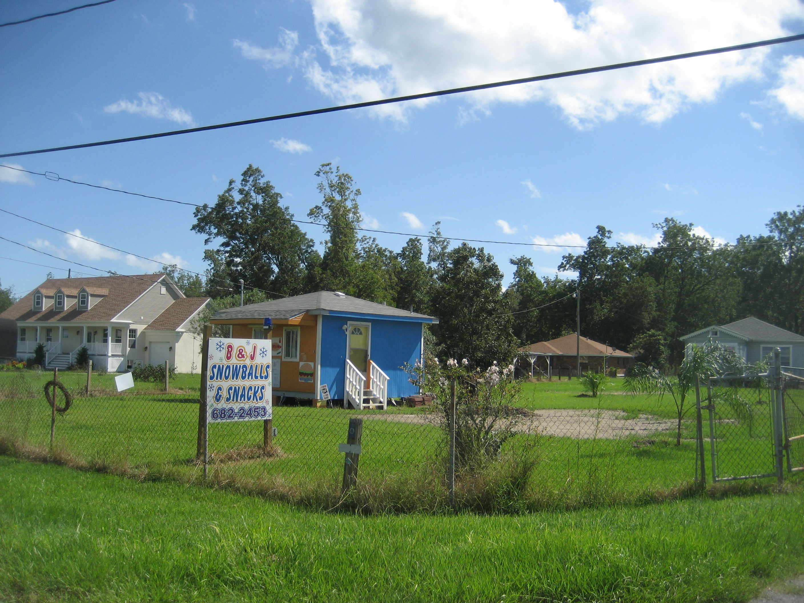 Braithwaite, Louisiana.